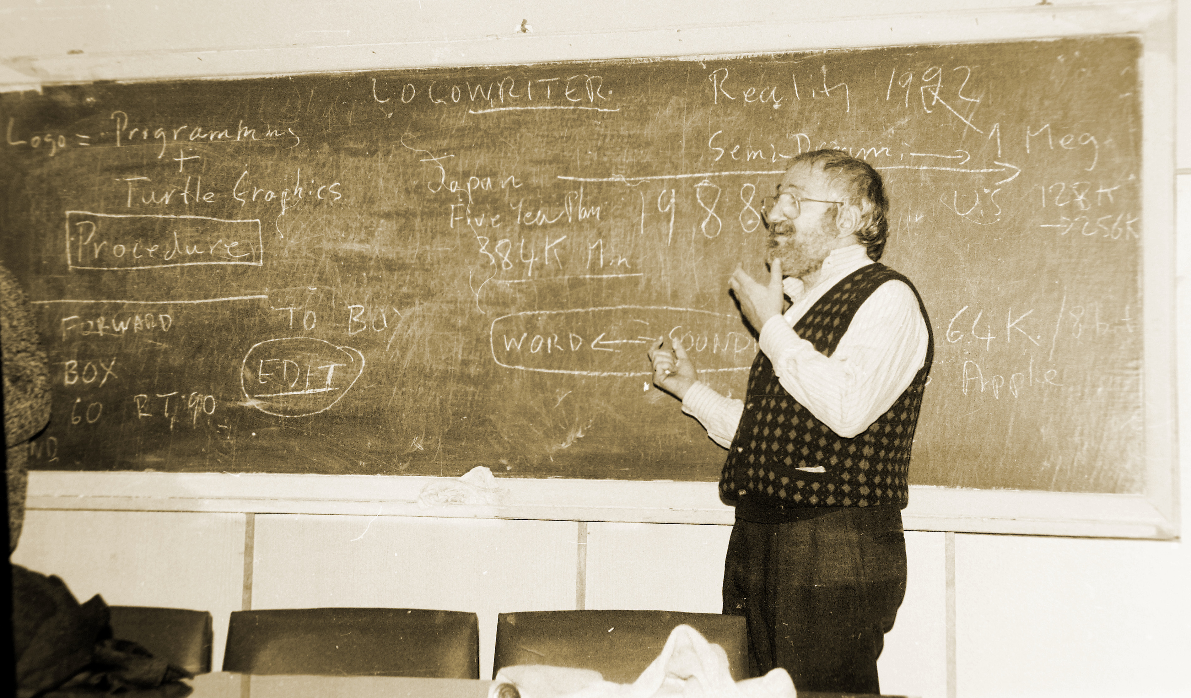 Seymour Papert lecturing in Moscow about LOGO, computers and education, 1987